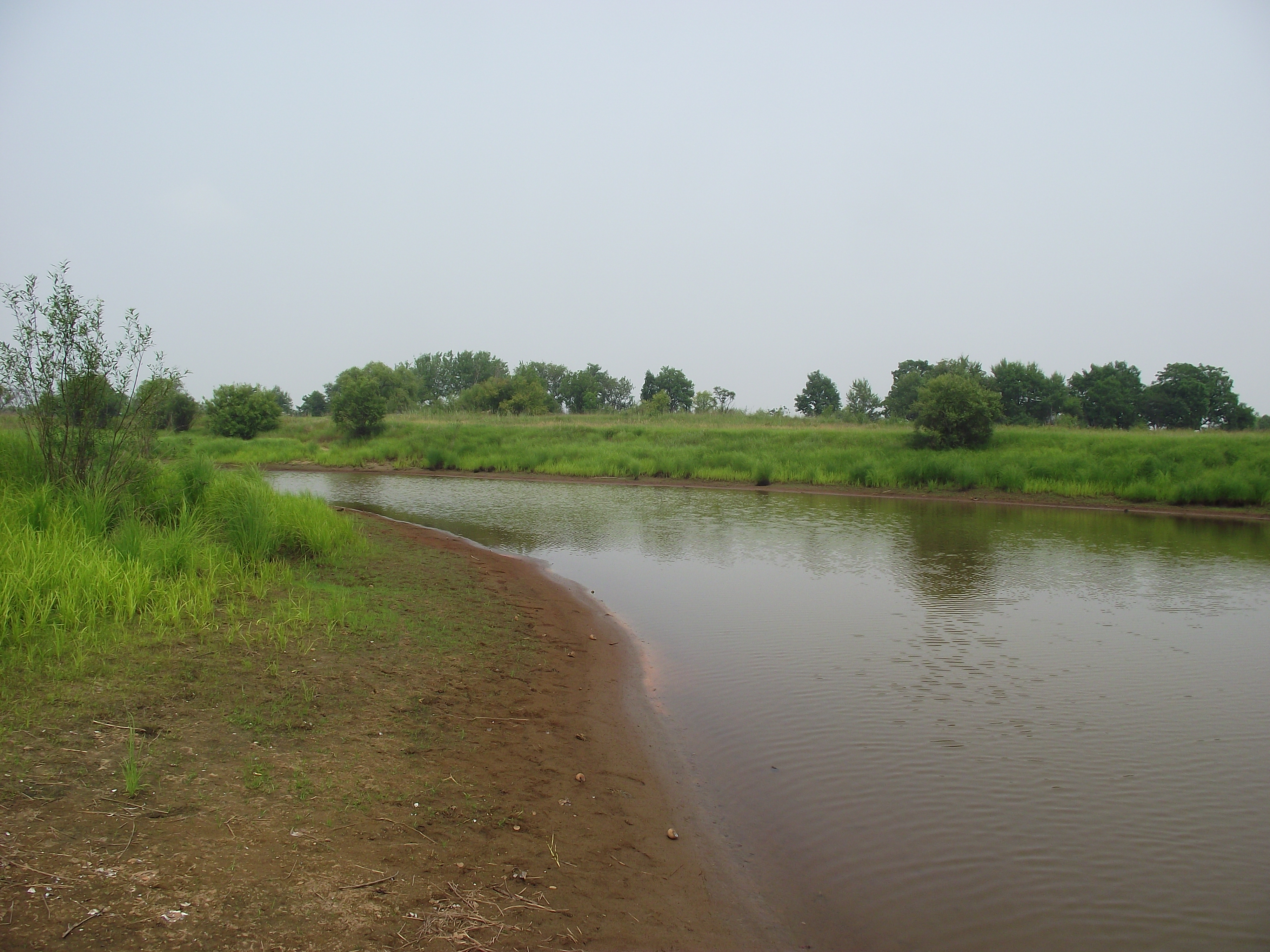 Протока реки Тунгуска у села Даниловка